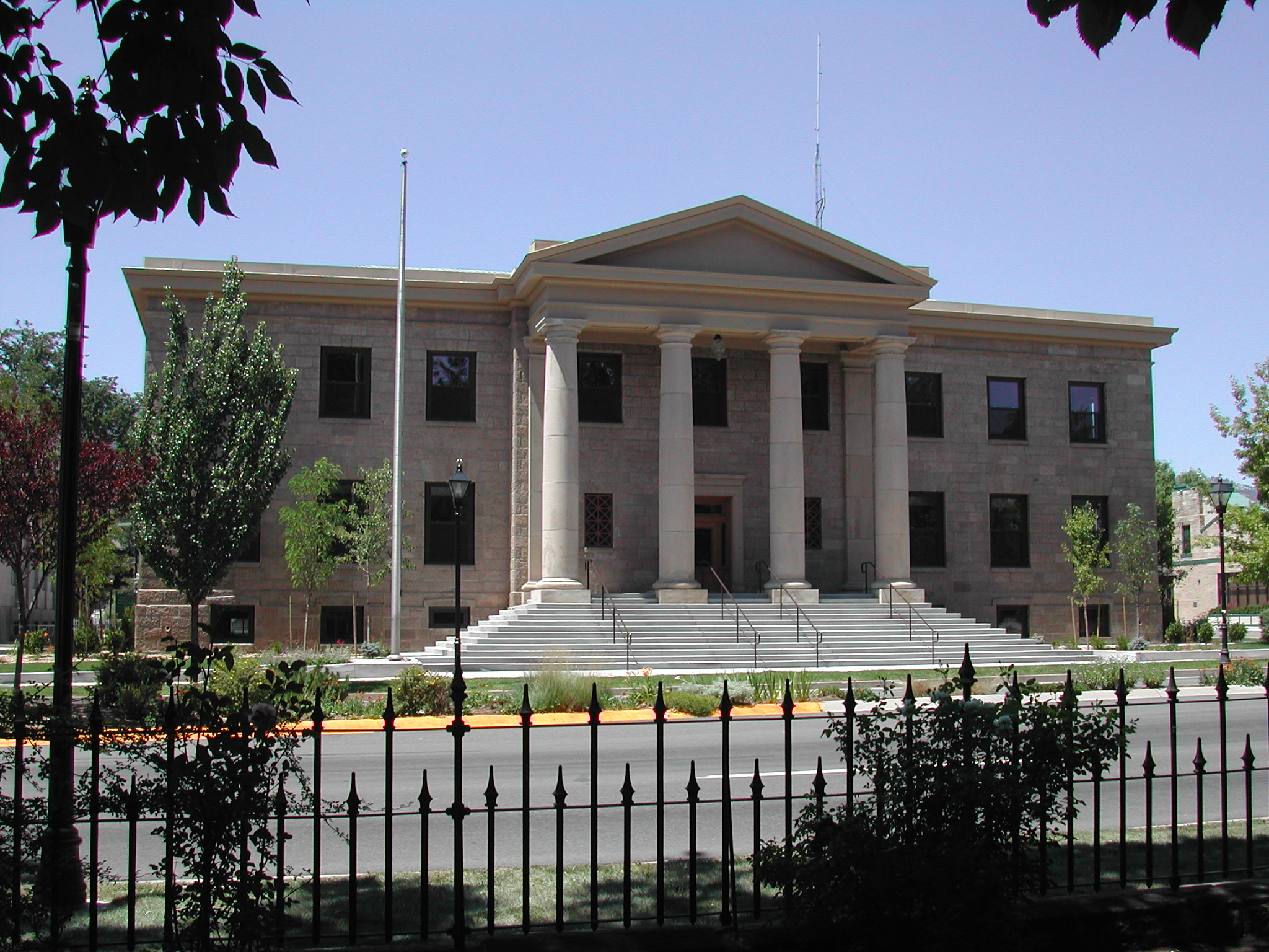 Front of the former Ormsby County Courthouse, located in the 100 block of S. Carson Street in Carson City, Nevada, United States. Built in 1922 to a Frederic DeLongchamps design, the courthouse is one of the Carson City Public Buildings, a historic district that is listed on the National Register of Historic Places.